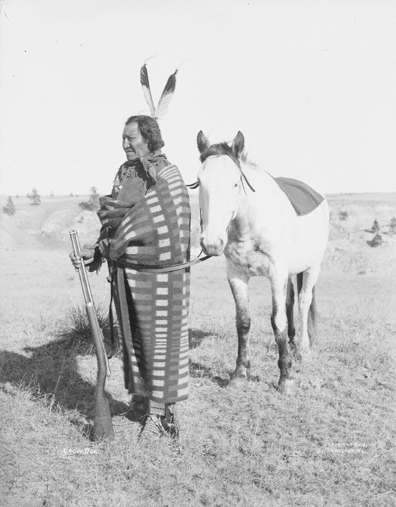 Native American (Brule) "Crow Dog" with his rifle and horse, Nebraska, c. 1898. May be at or near Fort Niobrara. Photo depicts subject with rare Remington-Keene rifle.